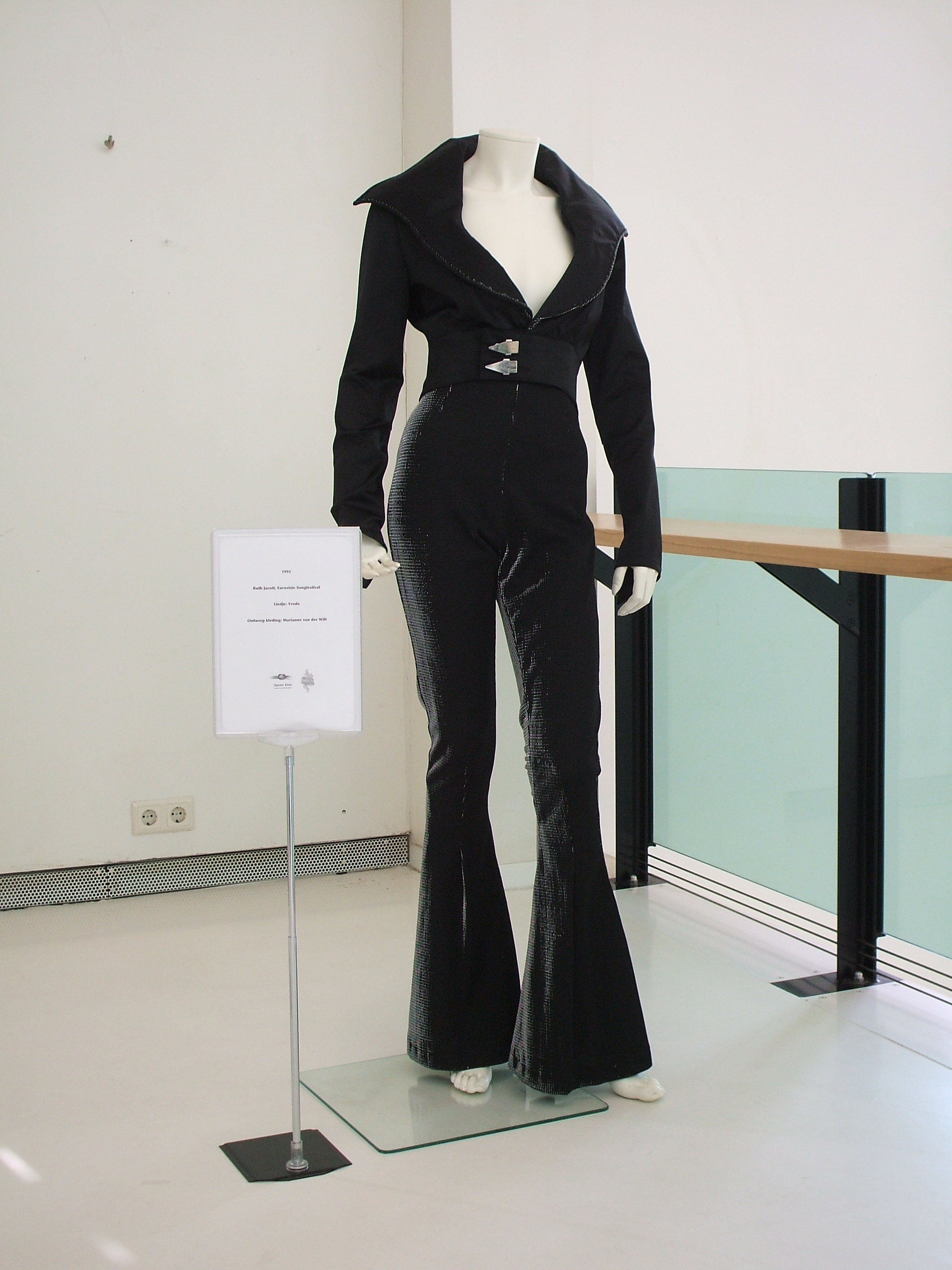 Ruth Jacott's 1993 Eurovision Song Contest suit at the "May we have your dress, please?!" exposition for benefit of the Sandra Reemer Foundation